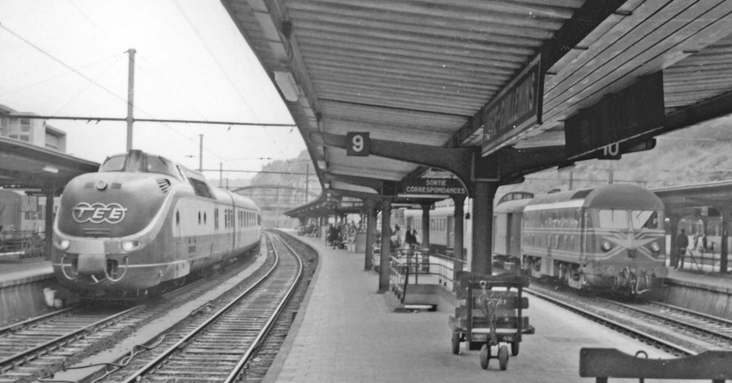 View eastward, with Amsterdam-Paris TEE express on the left and on the right an ordinary express to Paris with a Cockerill Diesel at Liège Guillemins Station.